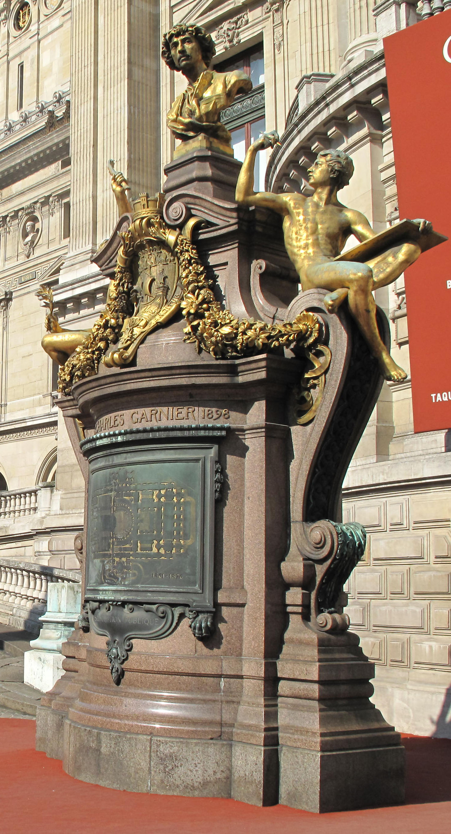 Monument to Charles Garnier, architect of the Palais Garnier in Paris